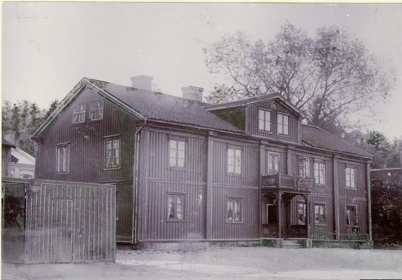 Redebergets landeri/Danska gästgiveriet, a mansion and inn in gothenburg, Sweden